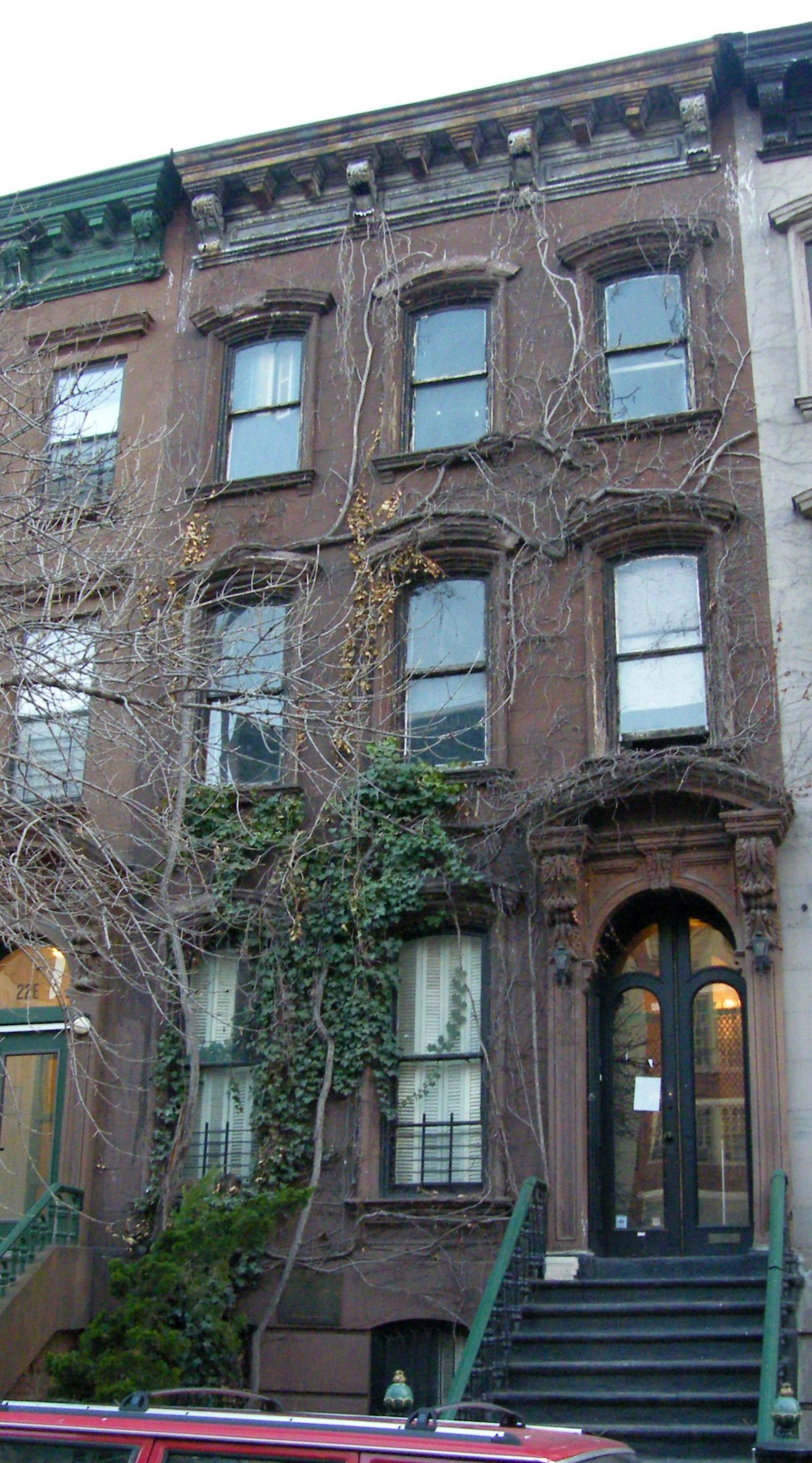 Langston Hughes house at 20 East 127th on National Register of Historic Places in New York City